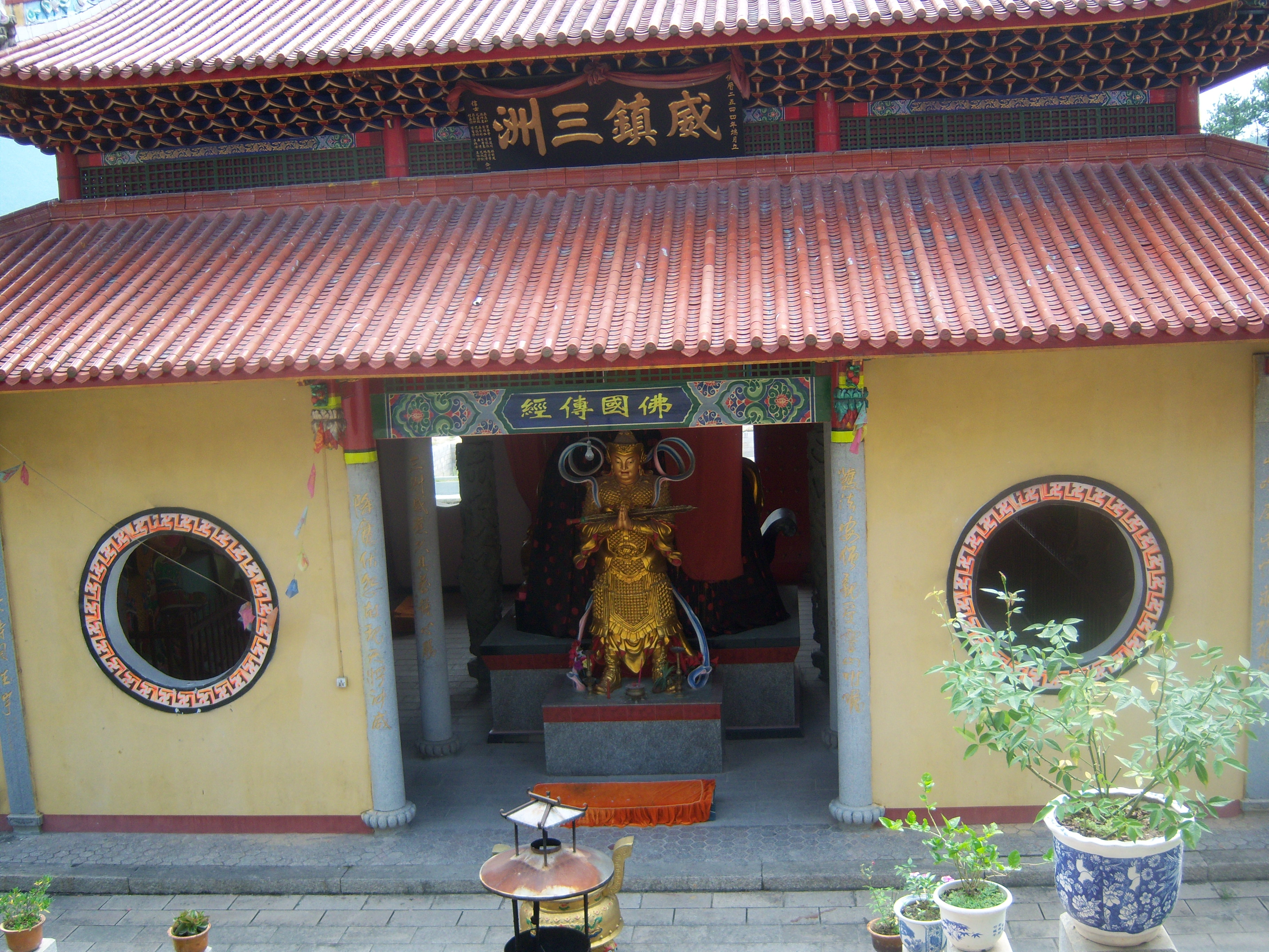 Shengshui temple of Fuzhou city, China (中国福建福州zh:圣水寺)